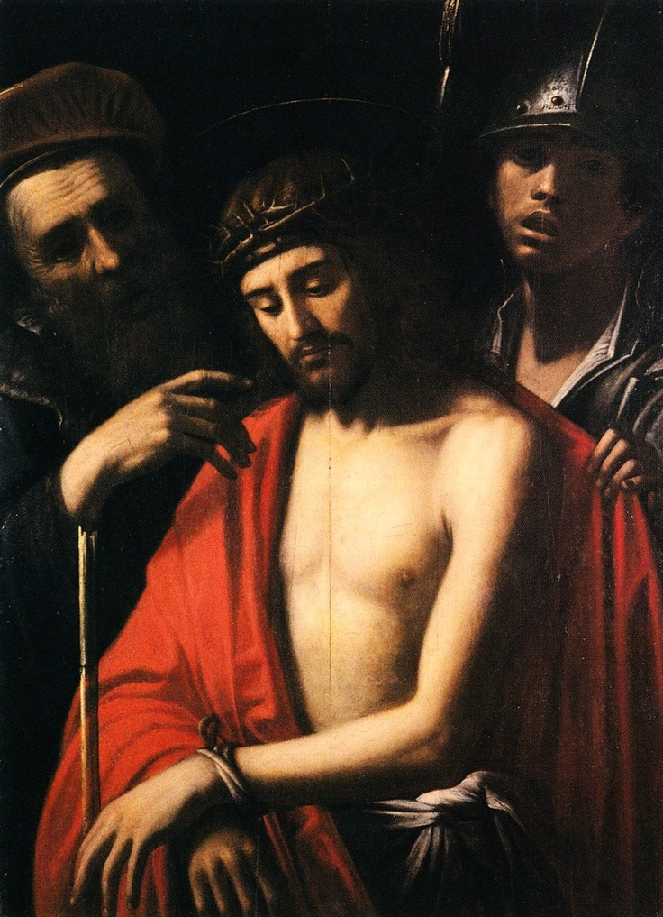 Painting of Mario Minniti, Ecce Homo, in Mdina Cathedral Museum.